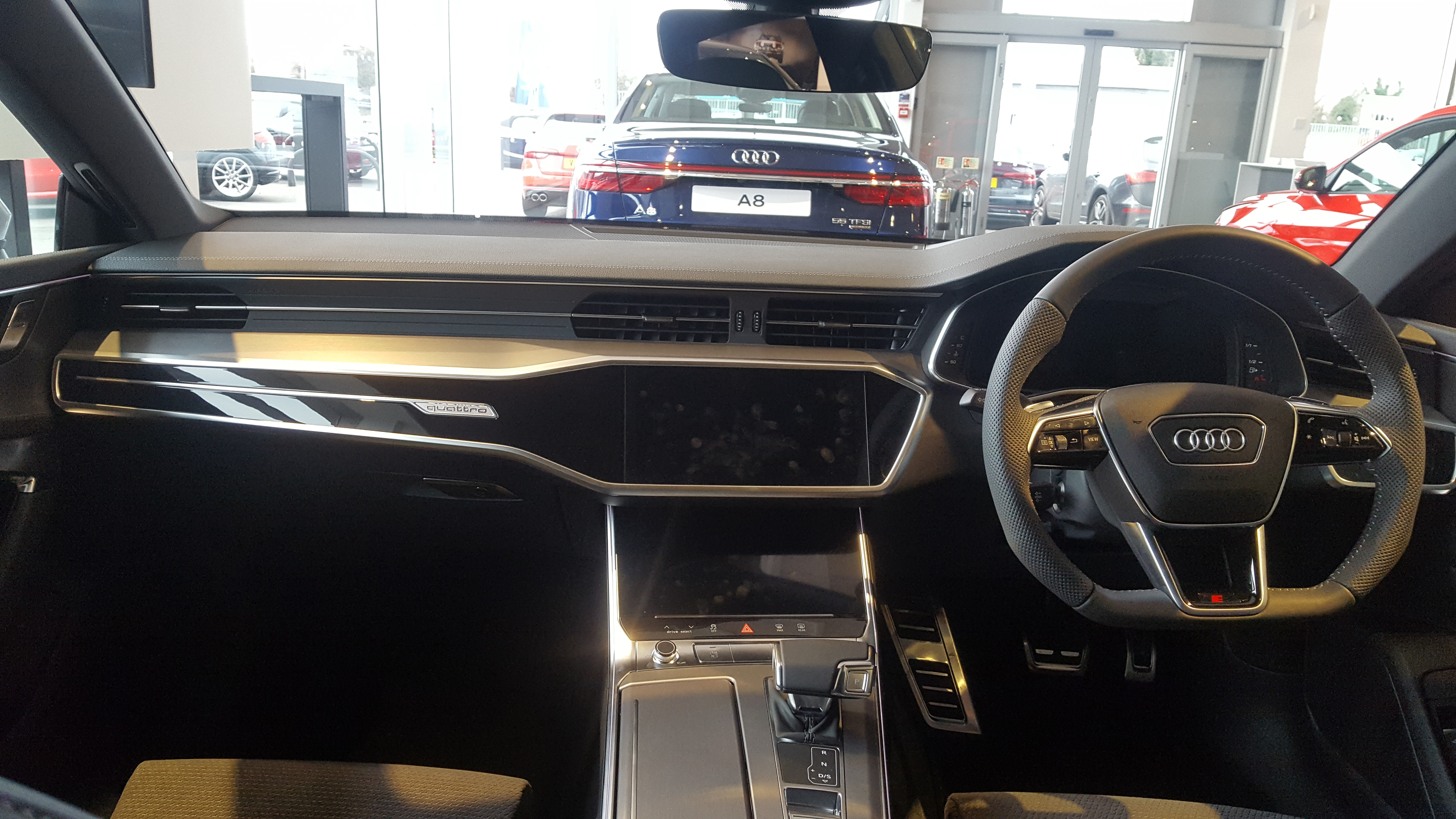 2019 Audi A7 Sportback TDi Quattro 50 Interior Taken in Stratford-upon-Avon